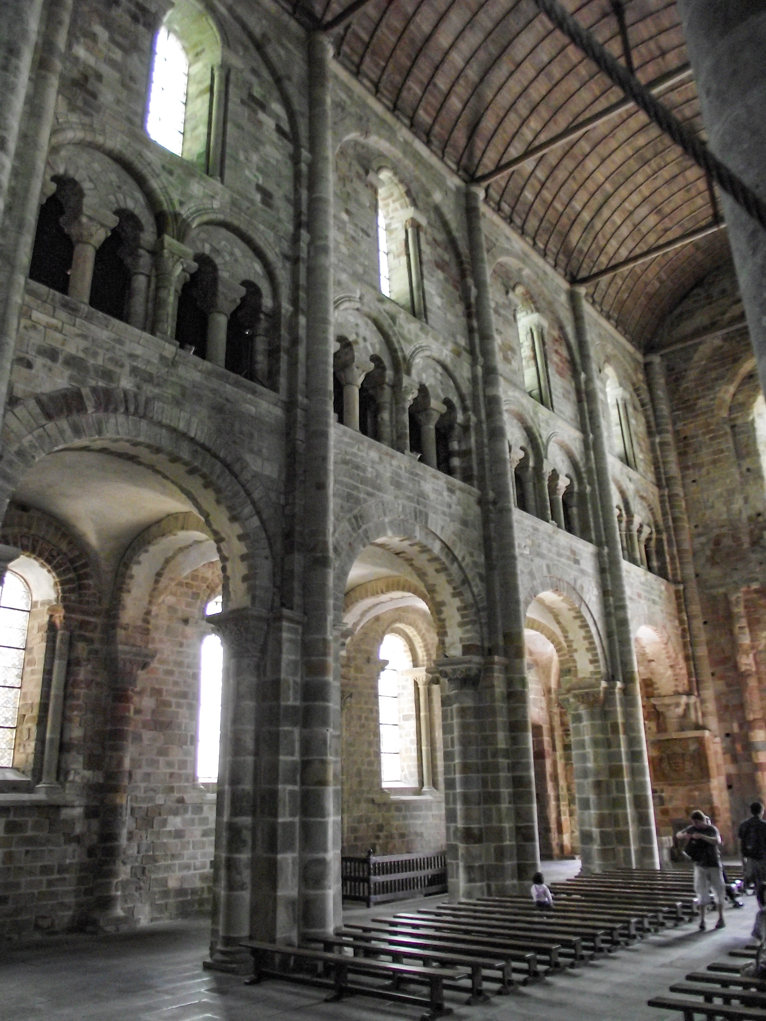 Abbey of Mont-Saint-Michel